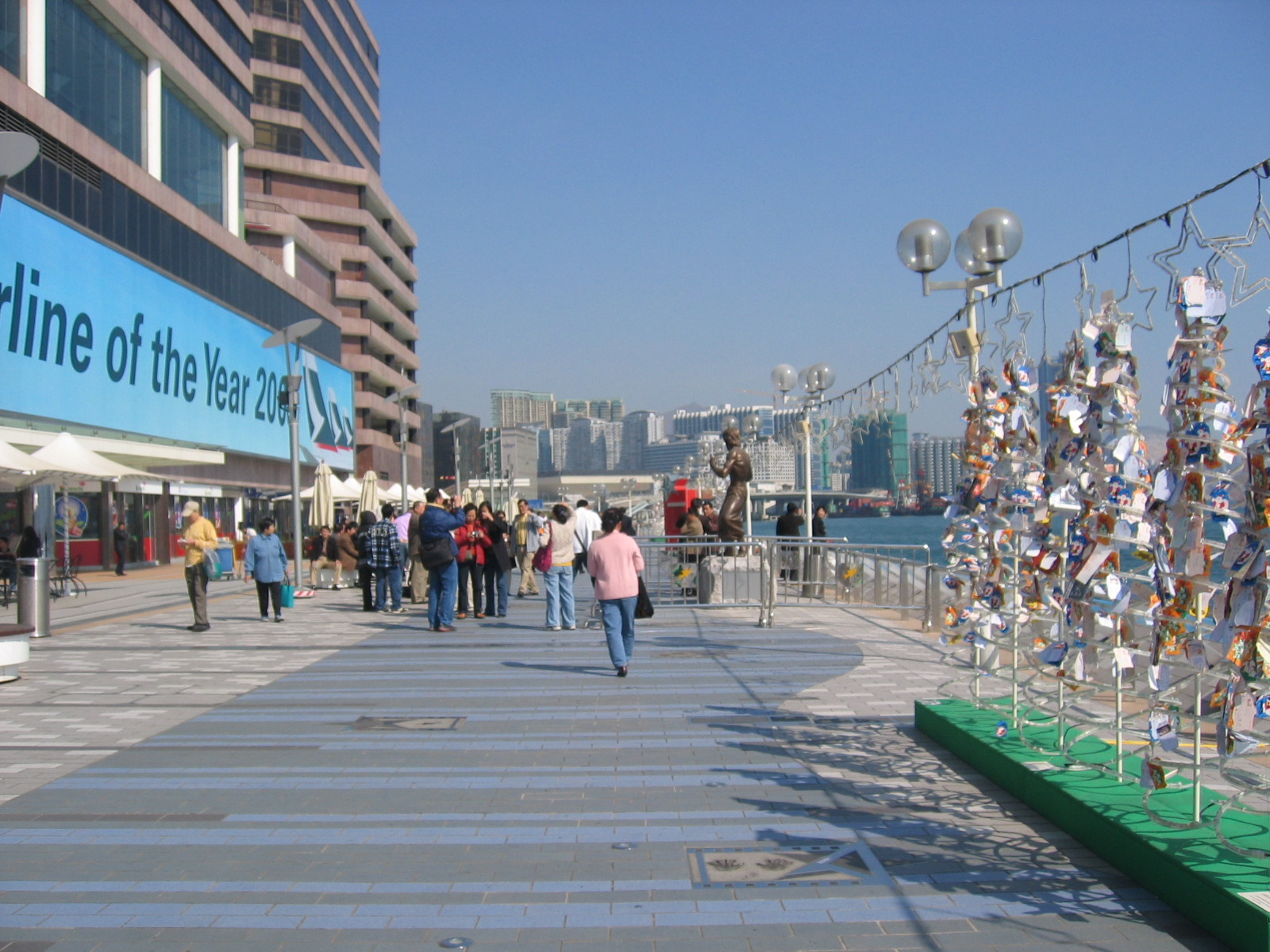 The Bruce Lee statue in Hong Kong is a memorial figure of deceased martial artist, Bruce Lee. The 2.5 metre bronze statue by artist Cao Chong-en was erected along the Avenue of Stars attraction near the waterfront at Tsim Sha Tsui.